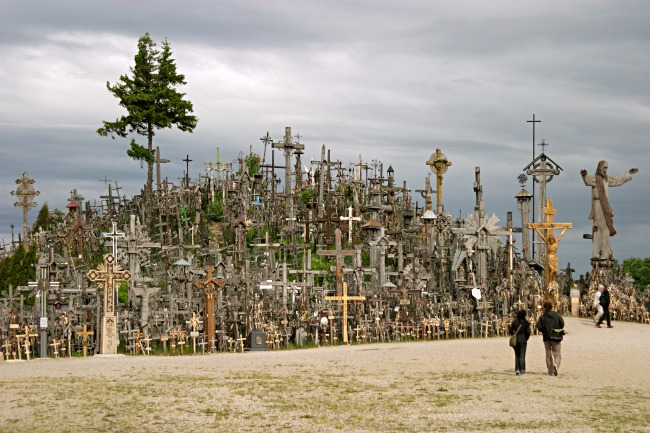 Hill of Crosses in Siauliai, Lithuania.